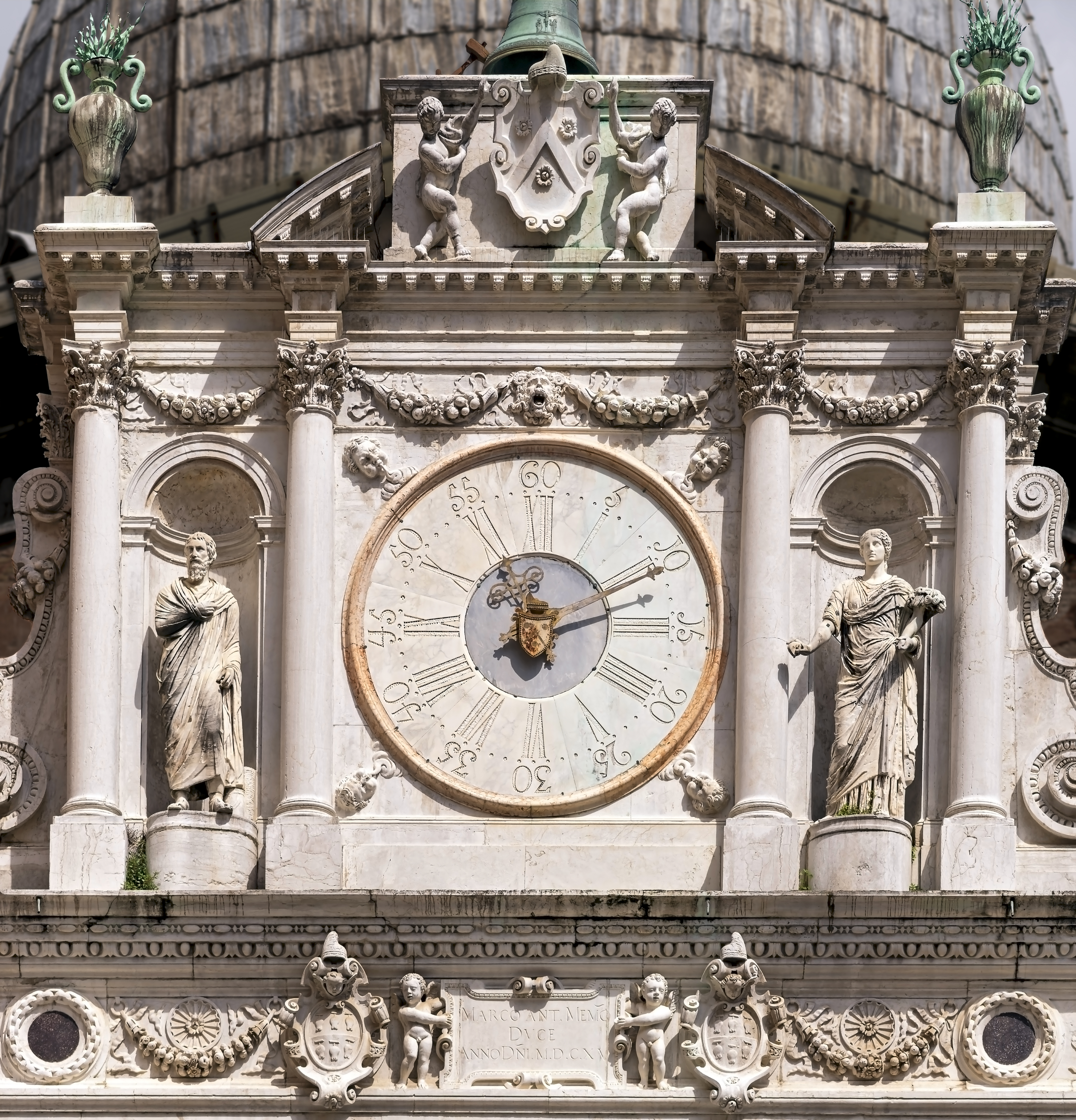 Courtyard of the Doge's Palace, upper part of the facade of the clock by Bartolomeo Manopola.